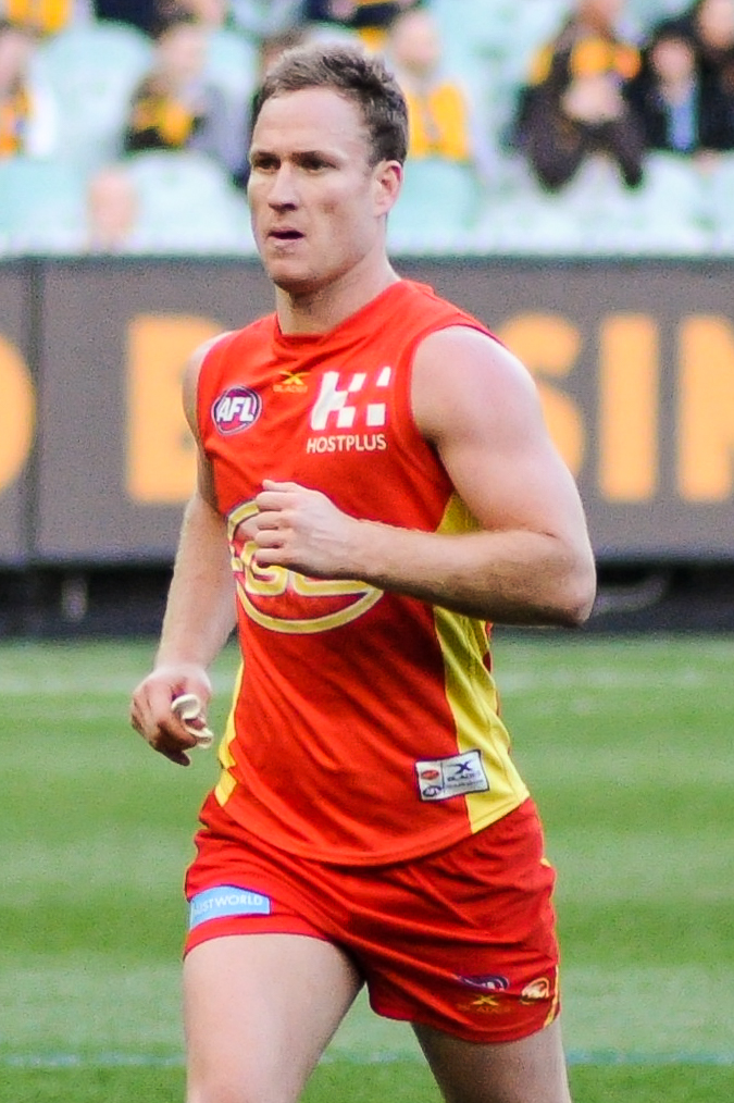 Brandon Matera during the AFL round twelve match between Melbourne and Collingwood on 10 June 2017 at the Melbourne Cricket Ground in Melbourne, Victoria.